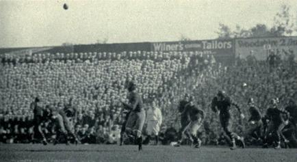 Navy attempts a forward pass during the 1931 Maryland–Navy football game at Griffith Stadium in Washington, D.C.